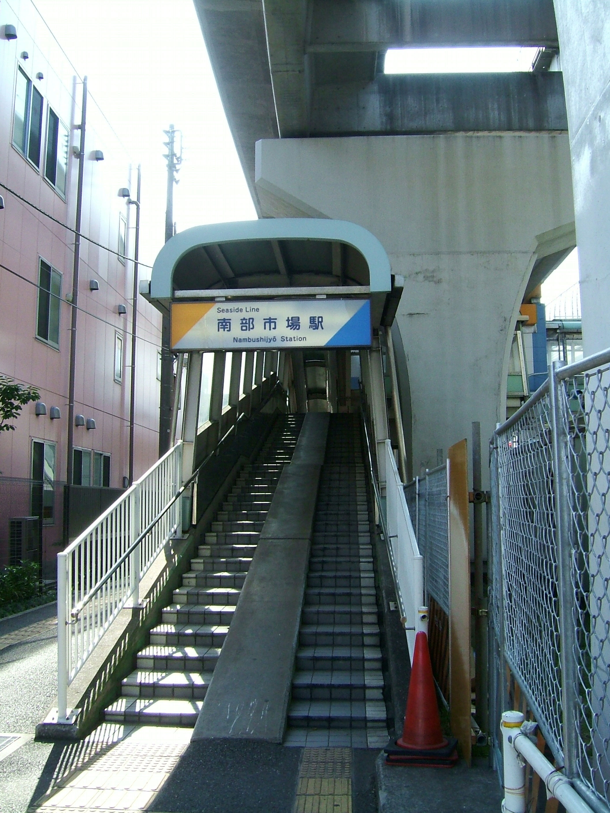 Nambu-Shijo Station no.2 entrance (Kanazawa Seaside Line)